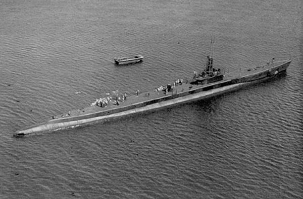 USS_Blackfin; Starboard view of the Blackfin (SS-322), 1944. US Navy photo courtesy of .